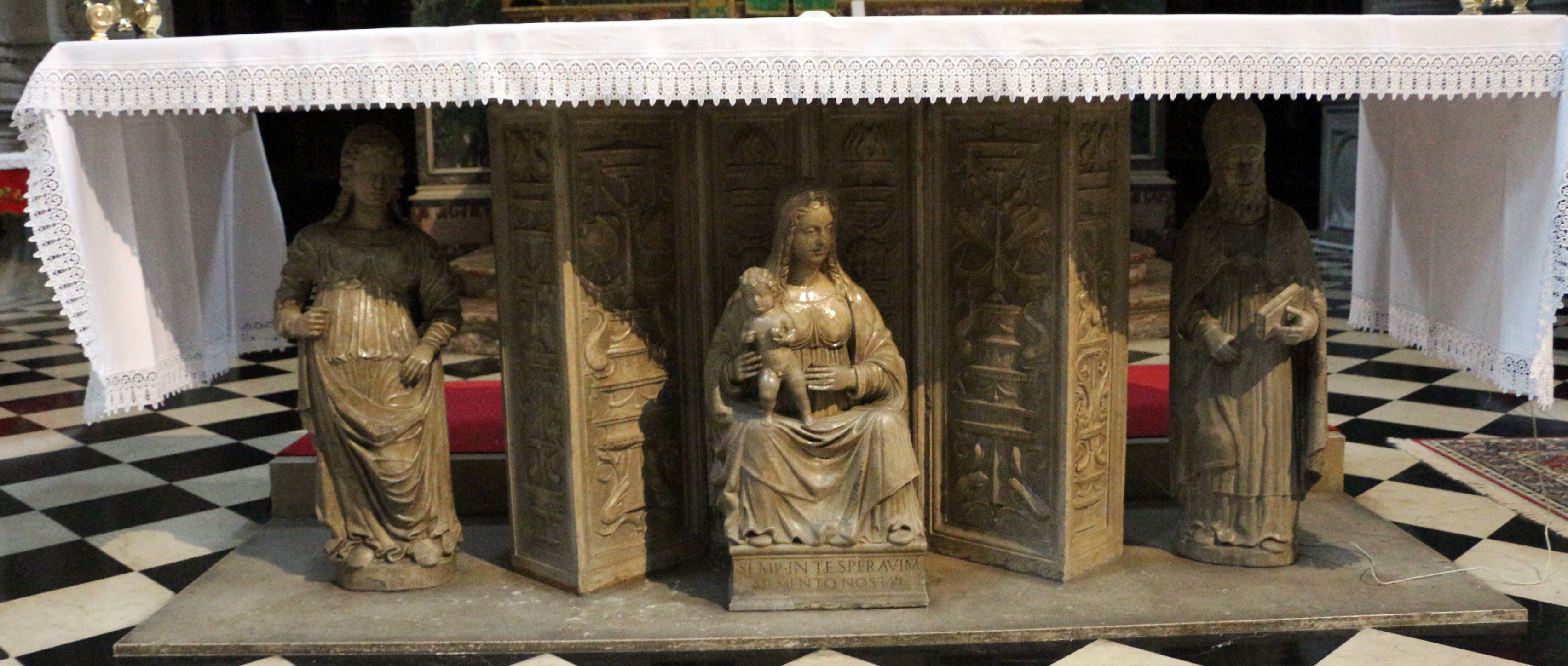 Santo Spirito (Bergamo)